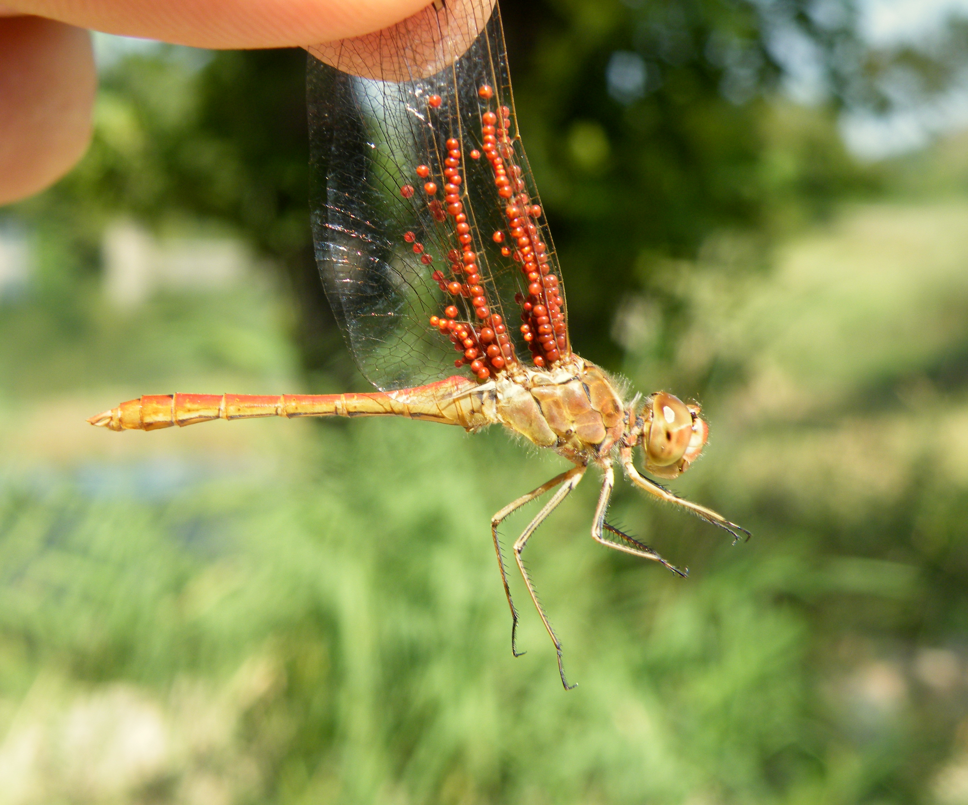 Sympetrum meridionale specimen with water mites (parasites) on its wings.